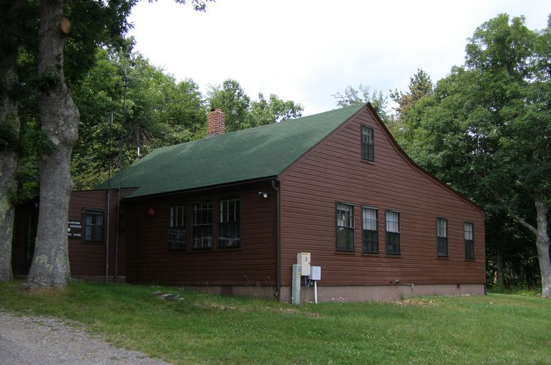 Present-day (2008) appearance of the Mountain School, the Ranger Station located between Big Meadows Visitors Center and Big Meadows Lodge. Section under the low-pitched roof is an addition.